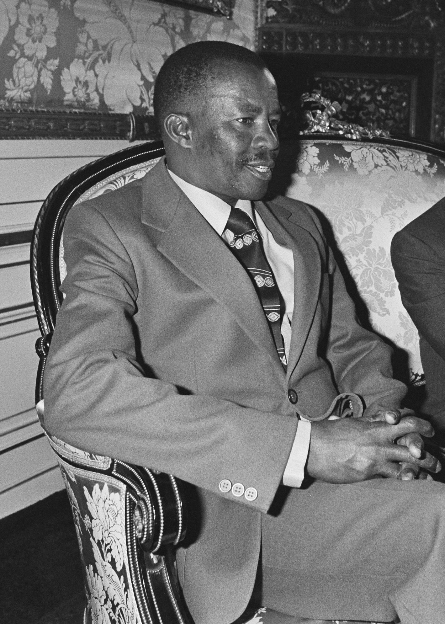 Quett Masire visiting the Dutch Royal family at Paleis Lange Voorhout (The Hague), 1980